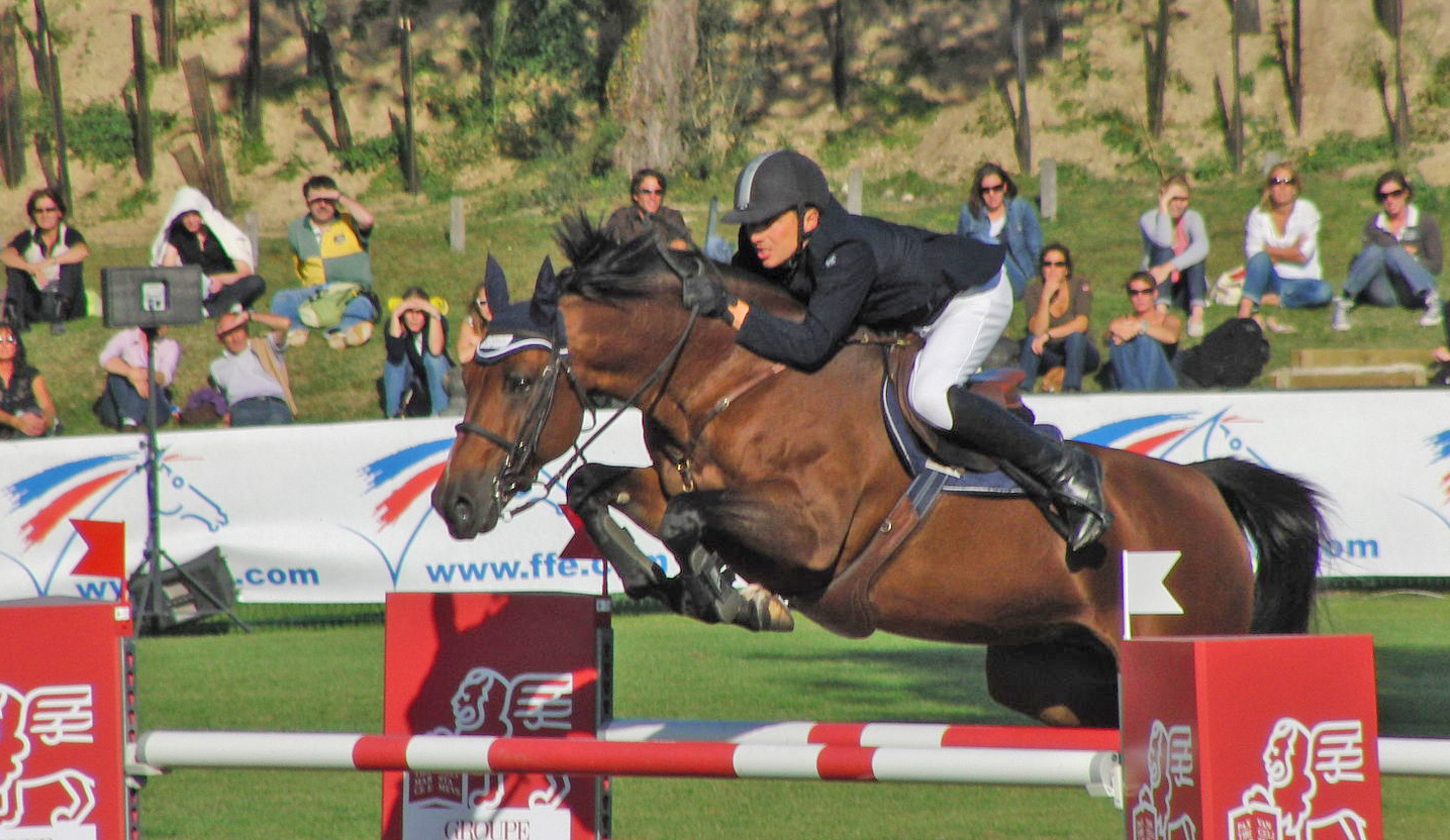 Alexis Gautier and Helios de la cour II, Selle français - Championnats de France de saut d'obstacles "Master Pro" 2010 at Fontainebleau, France